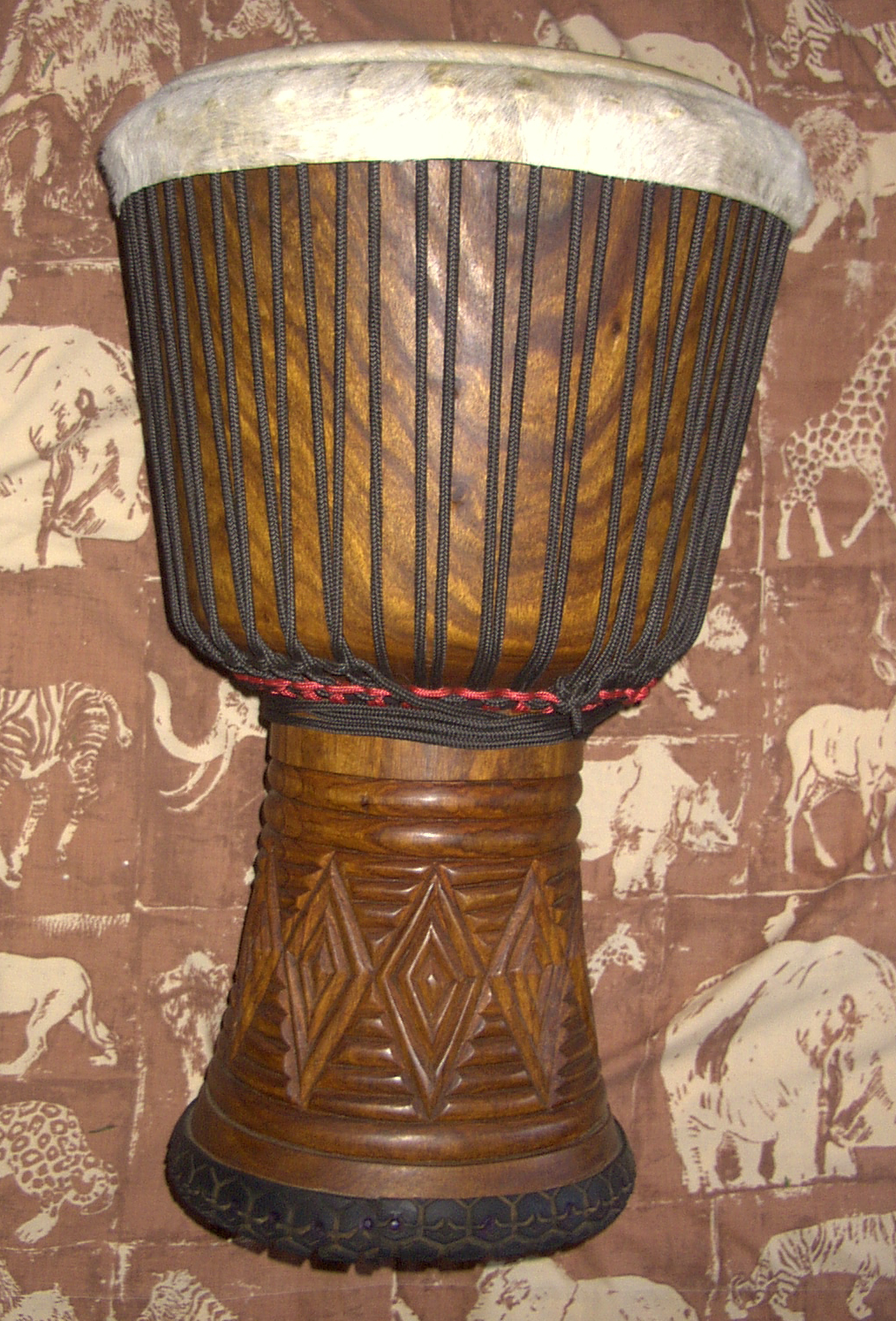 Khari Wood Djmebe From Guinea West Africa